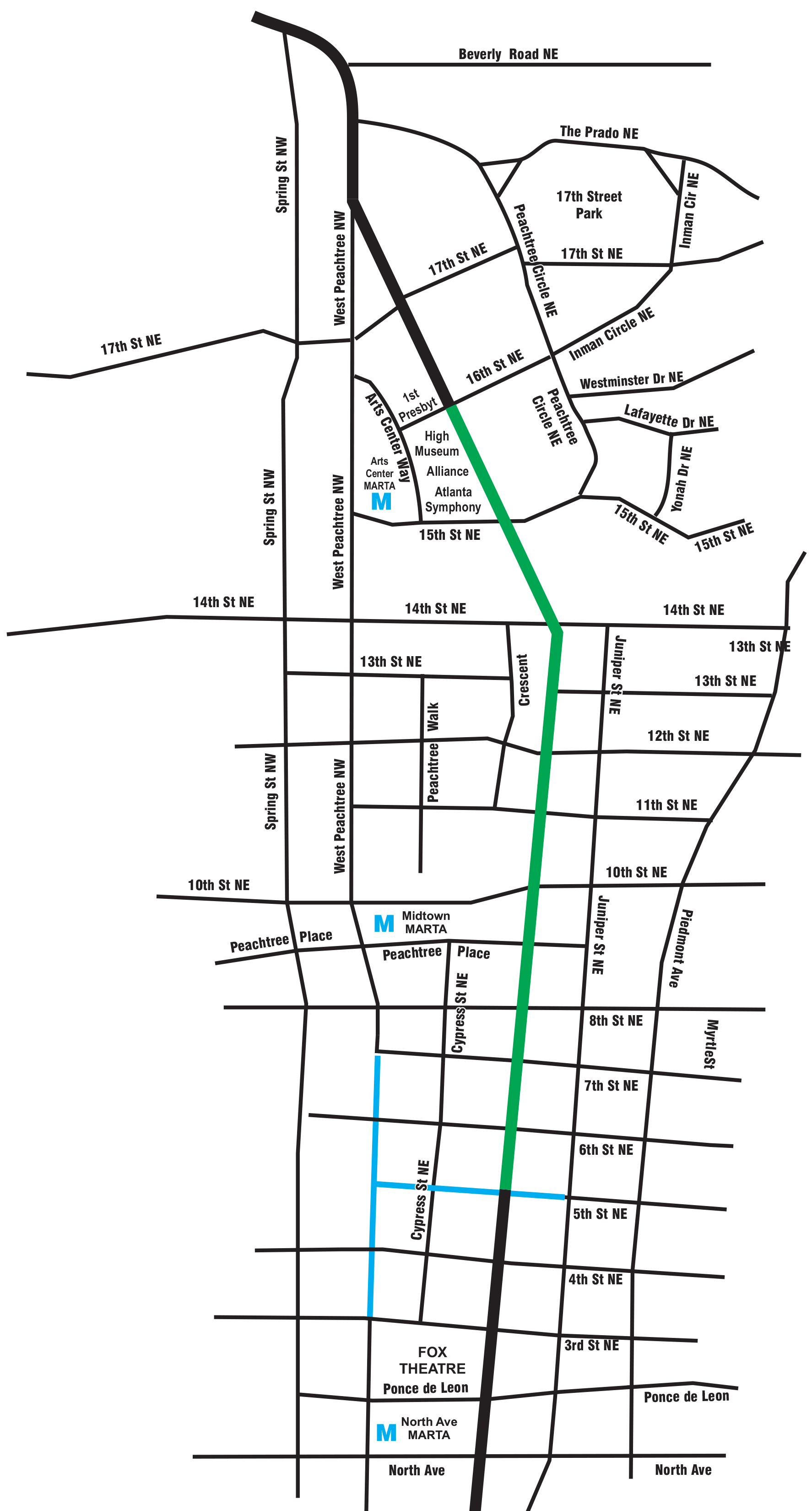 This file is an image of the Children's Christmas Parade route, released by Children's Healthcare of Atlanta in February, 2013.